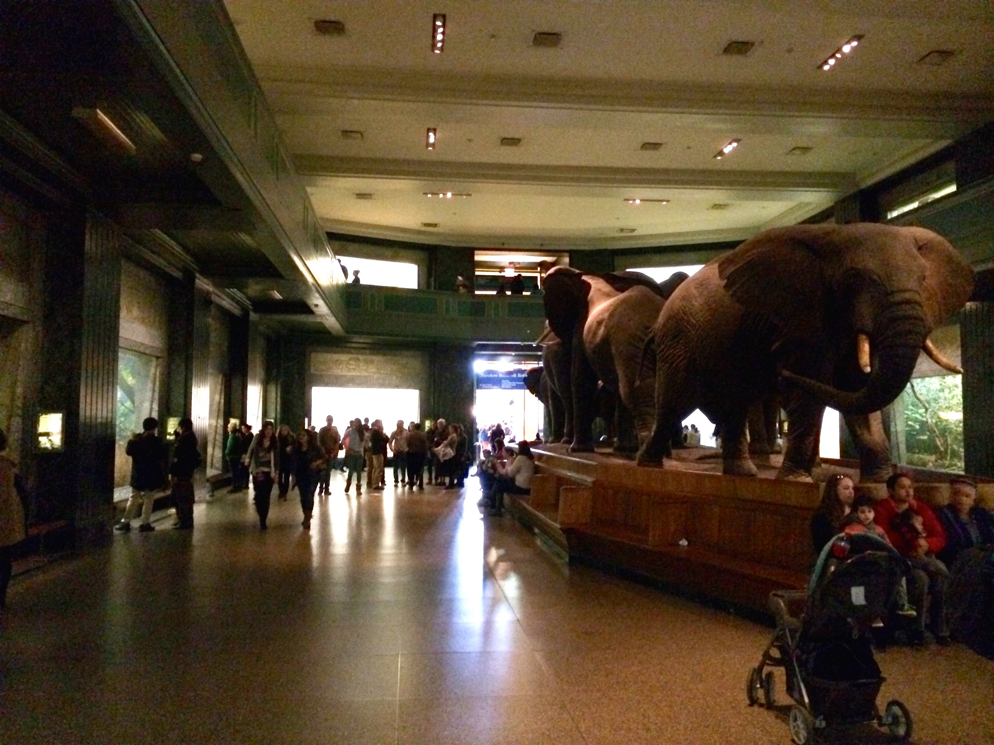 Akeley Hall of African Mammals, American Museum of Natural History